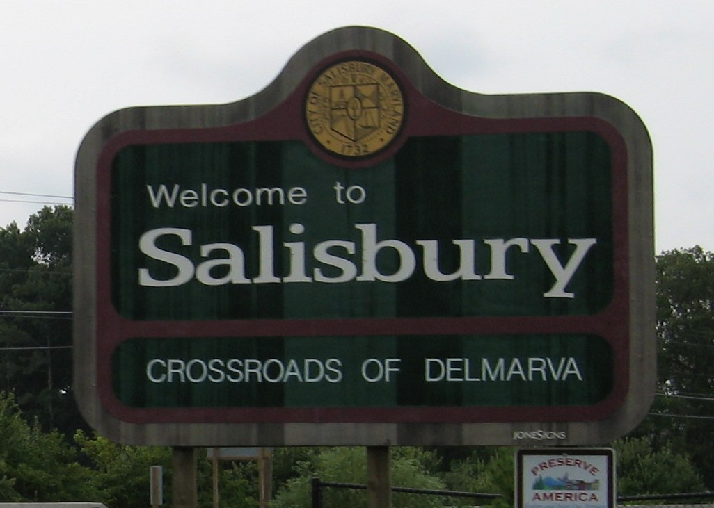 Taken on location August 20, 2006. On border of Delmar, MD & Salisbury, MD at Leonards Mill Pond.